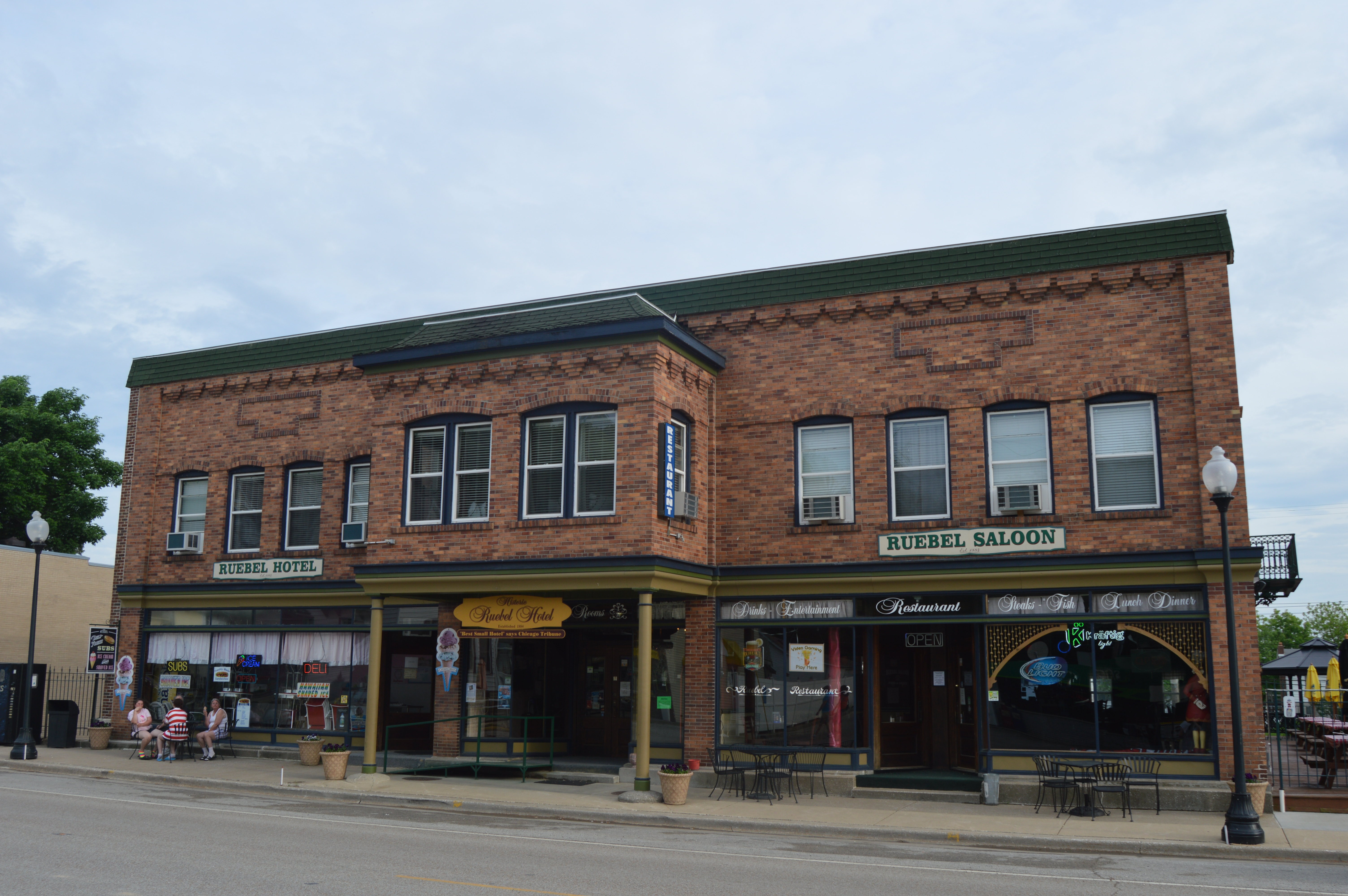 Front of the Ruebel Hotel, located at 207-215 E. Main Street (Illinois Route 100) in Grafton, Illinois, United States. Built in 1913, it is listed on the National Register of Historic Places.